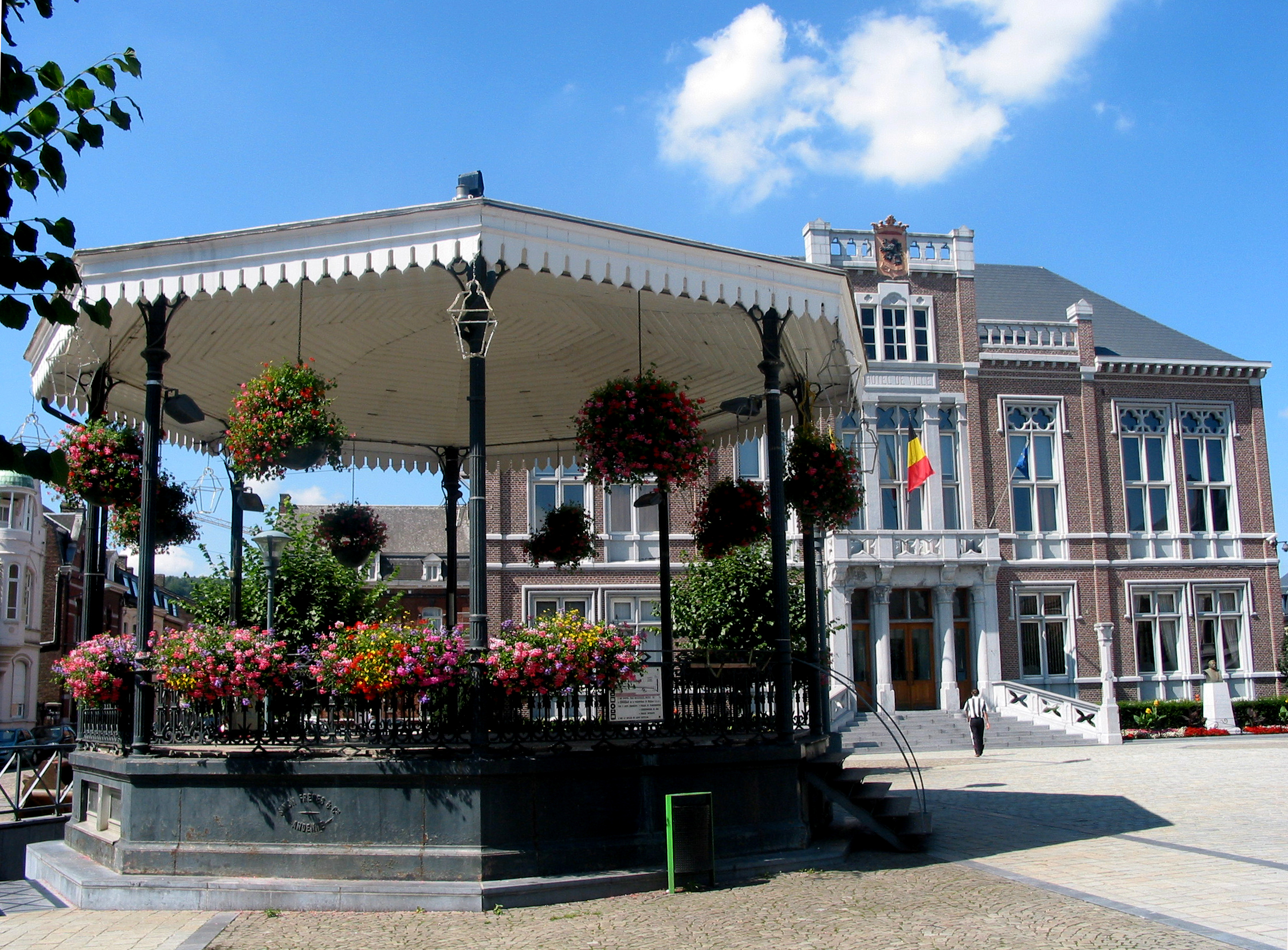 Andenne (Belgique), place des Tilleuls - the banstand (1879).